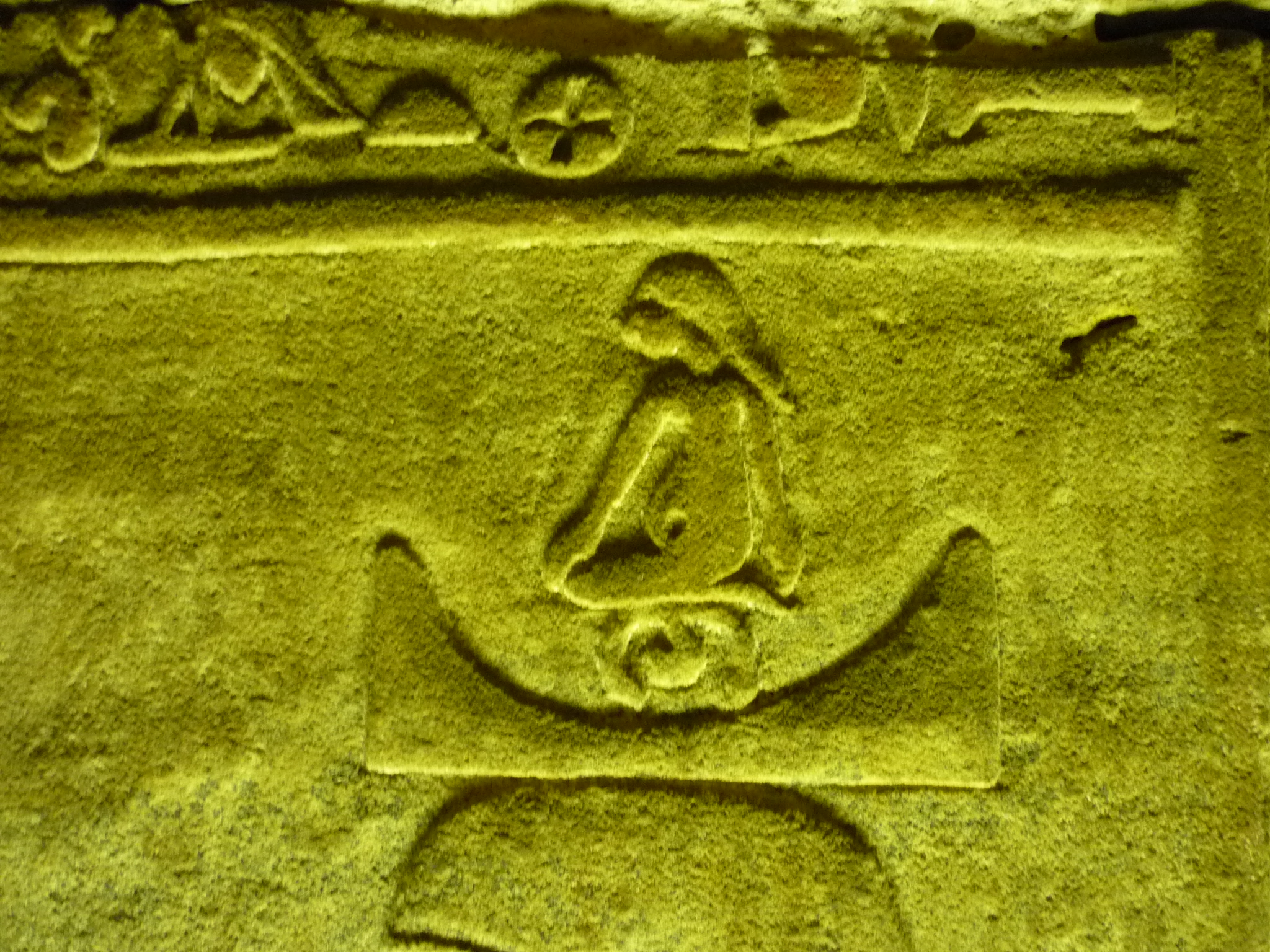 Wall relief of childbirth in Treasure hall, temple of Edfu, Egypt